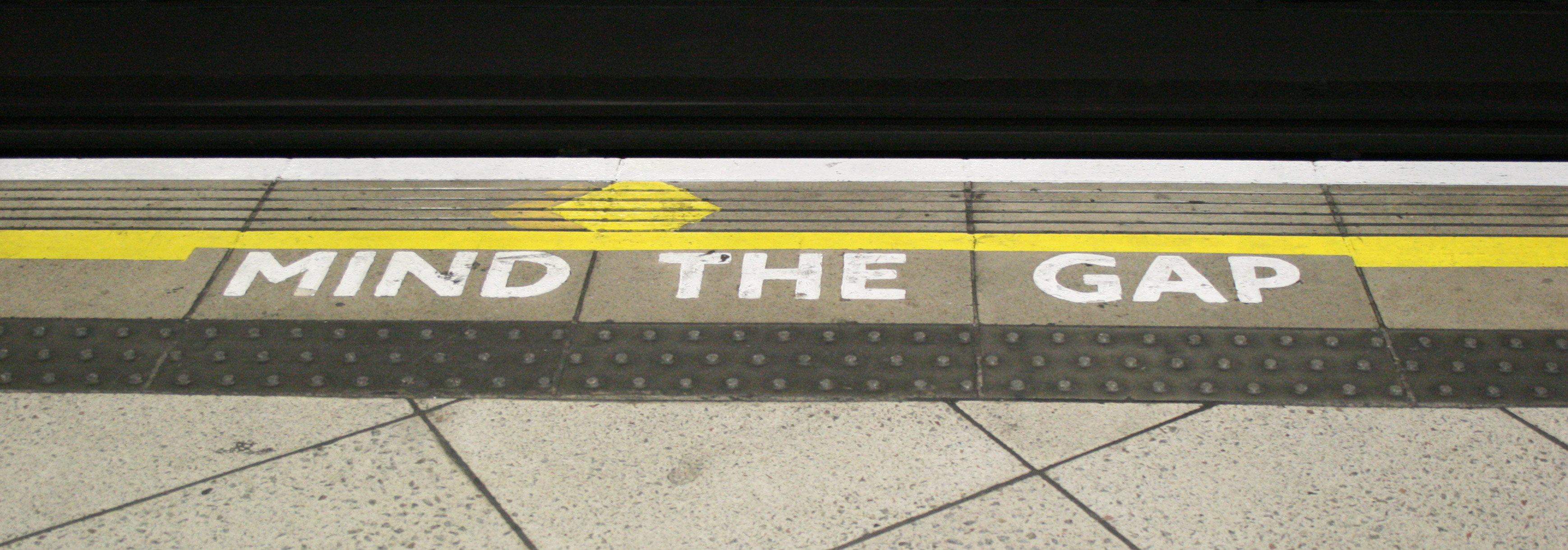 London underground, mark "Mind the gap".